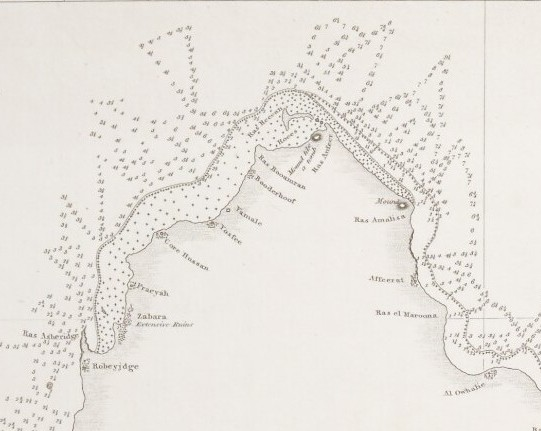 "‘Trigonometrical Survey of the Arabian or Southern Side of the Persian Gulf By Lieutenants J.M. Guy & G.B. Brucks H.C. Marine. 1824. Drawn by Lieutt. M. Houghton Draughtsman H.C.M. Engraved by John Bateman. Sheet 3rd’" Some of the settlements shown on Qatar's coast, from bottom to top, left to right. In parenthesis is their modern equivalent which I deduced based on their location and pronunciation: Rubeydje (Rubayqa), Ras Asheeridge (Ras Ushayriq), Zabara (Zubarah), Fraeyah (Freiha), Core Hussan (Khor Hassan - Al Khuwayr), Yosfee (Al Yousifiya), Yumale (Al Jemail), Buderhoof (Abu Dhalouf), Roees (Ar Ru'ays, Al Ruwais), Ras Reccan (Ras Rakan), Affeerat (Fuwayrit, Fuwairat), Ras el Maroona (Al Maroona), El Owhalie (Al Huwailah), Ras Luffan (Ras Laffan), Core Shedenth (Khor Shaqiq - Al Khor), Ras Mutbuch (Ras Matbakh), Dooat el Wosseil (Lusail), El Biddah (Al Bidda - Doha), Ras Bo Aboot (Ras Abu Aboud), Jibbil el Wokrah (Al Wakrah), Ras Amulhool (Umm Al Houl), Core Alladeid (Khawr Al Udeid, Khor Al Udayd, etc.) The islands off of Doha are: Jezeerat el Alli (Al Aaliya Island, Jazirat Aliyah), Jez'el Sufflie (Safliya Island, Jazirat Safliya)